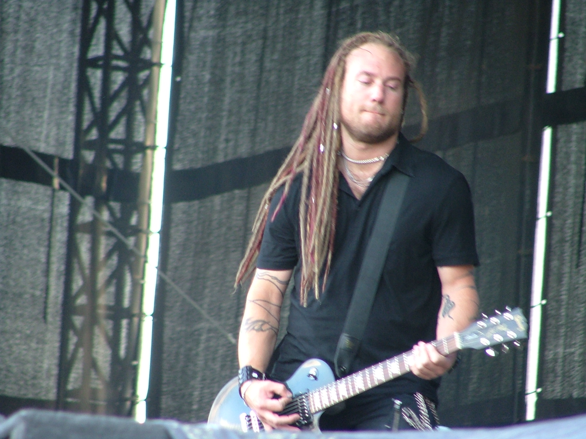 Swedish melodic death metal band Dark Tranquillity at the Summer Breeze in Dinkelsbühl. Martin Henriksson.